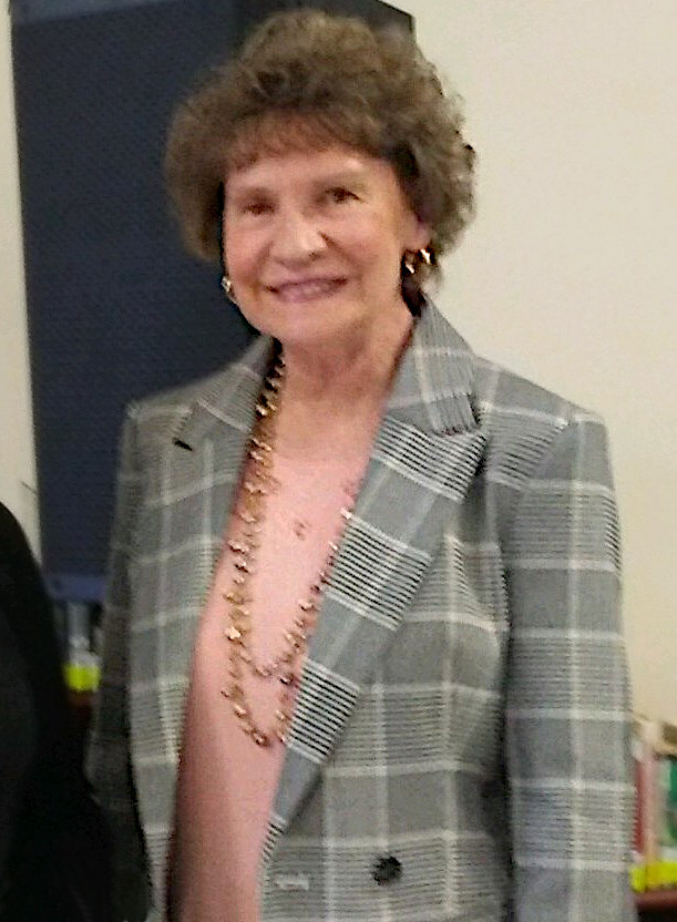 Beverly Lewis (right) with long time fan Michele Wilbur at Mrs. Lewis' book signing. Eckhart Public Library, Auburn, Indiana, on April 12, 2018.